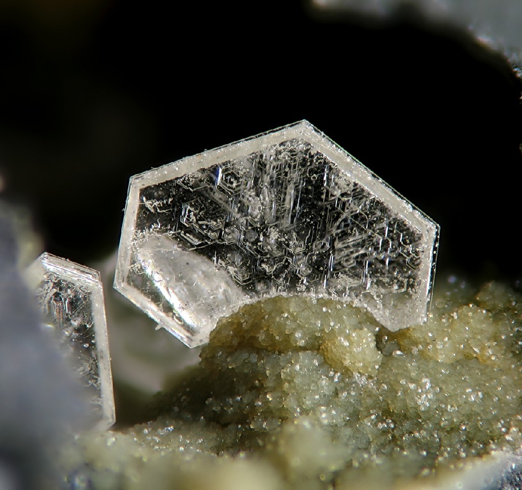 Hydrocerussite Locality: Passa Limani Cove slag locality, Passa Limani area, Lavrion District slag localities, Lavrion (Laurion; Laurium) District, Attikí (Attica; Attika) Prefecture, Greece Picture width 2 mm. Collection and photograph Christian Rewitzer